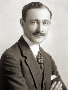 Leon Orłowski (1891-1976) – Polish diplomat, envoy to Hungary (1936-1940)